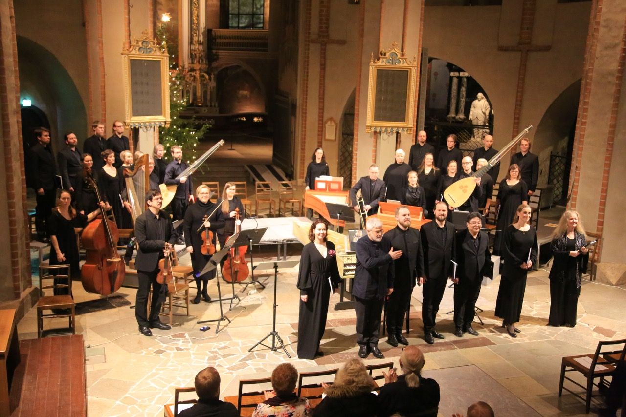 Musicians of the King’s Road baroque orchestra and choir with soloists and conductor in Turku Cathedral on 6 January 2020 after the performance of works by Giacomo Carissimi.